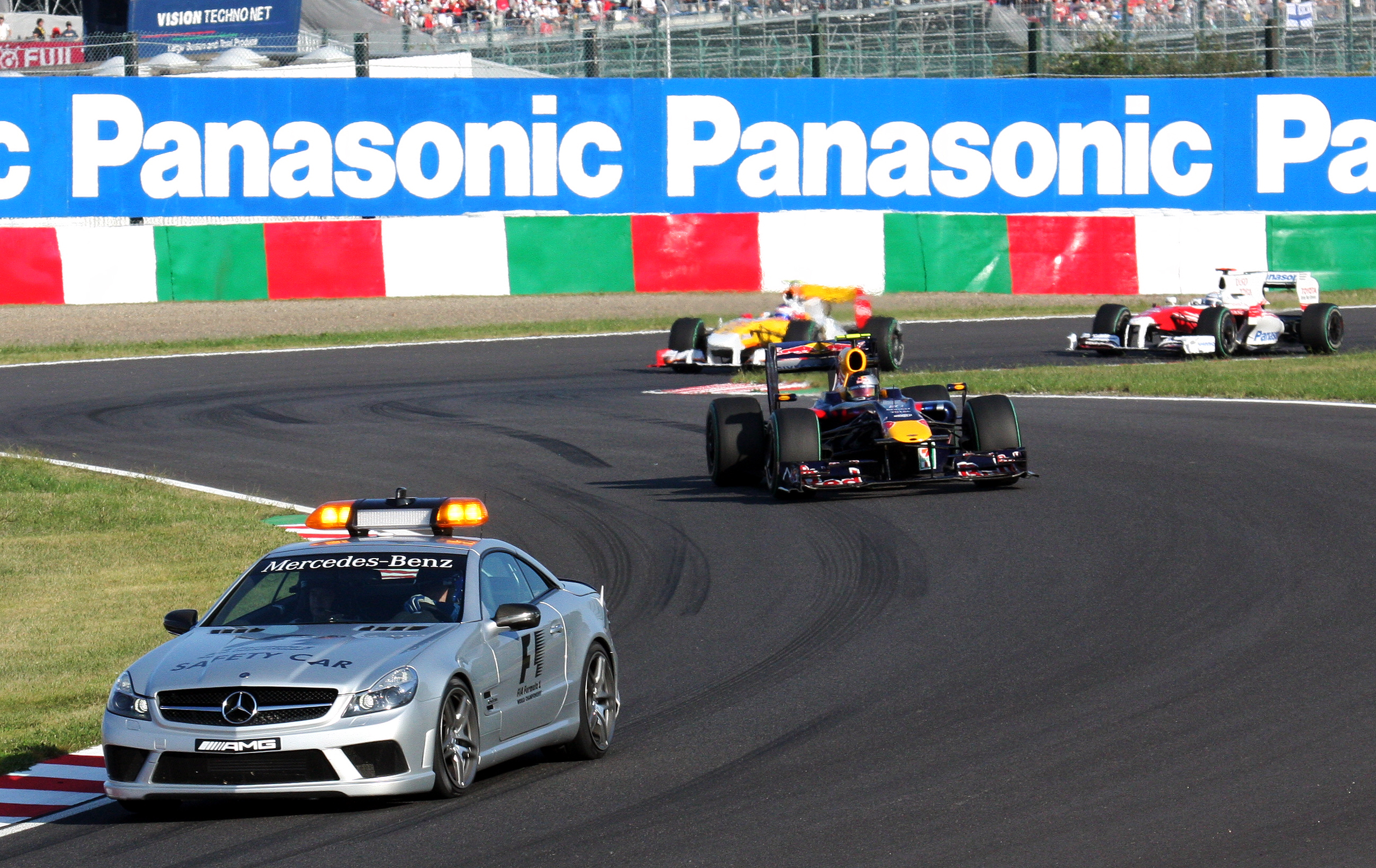 Formula One 2009 Rd.15 Japanese GP: Safety Car with Sebastian Vettel (Red Bull).